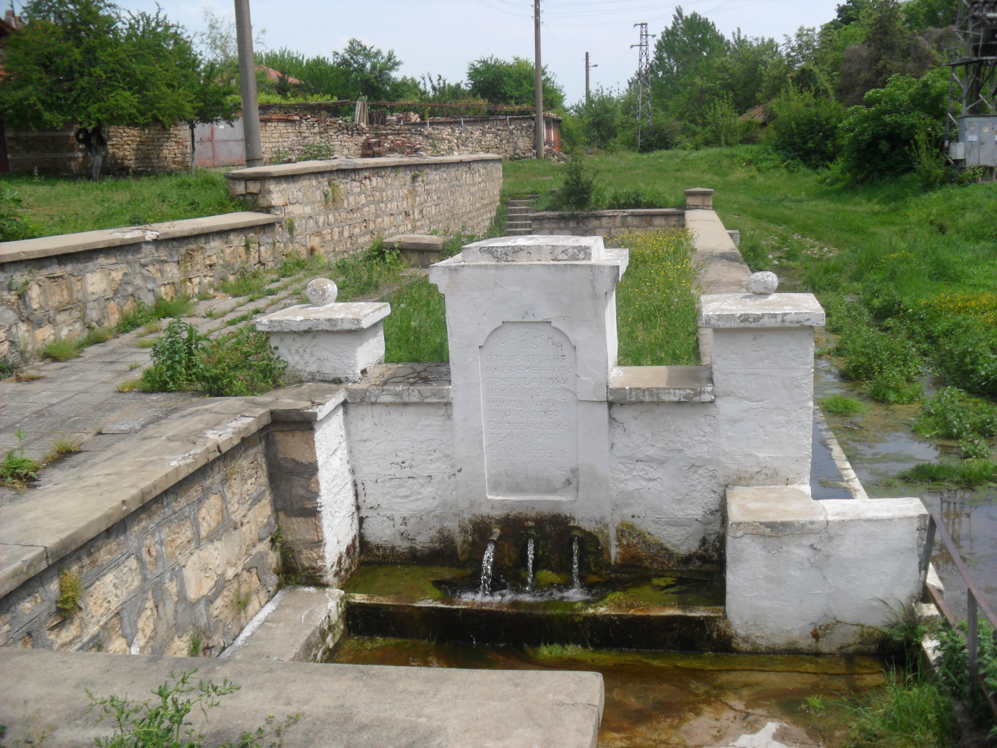 May 2015